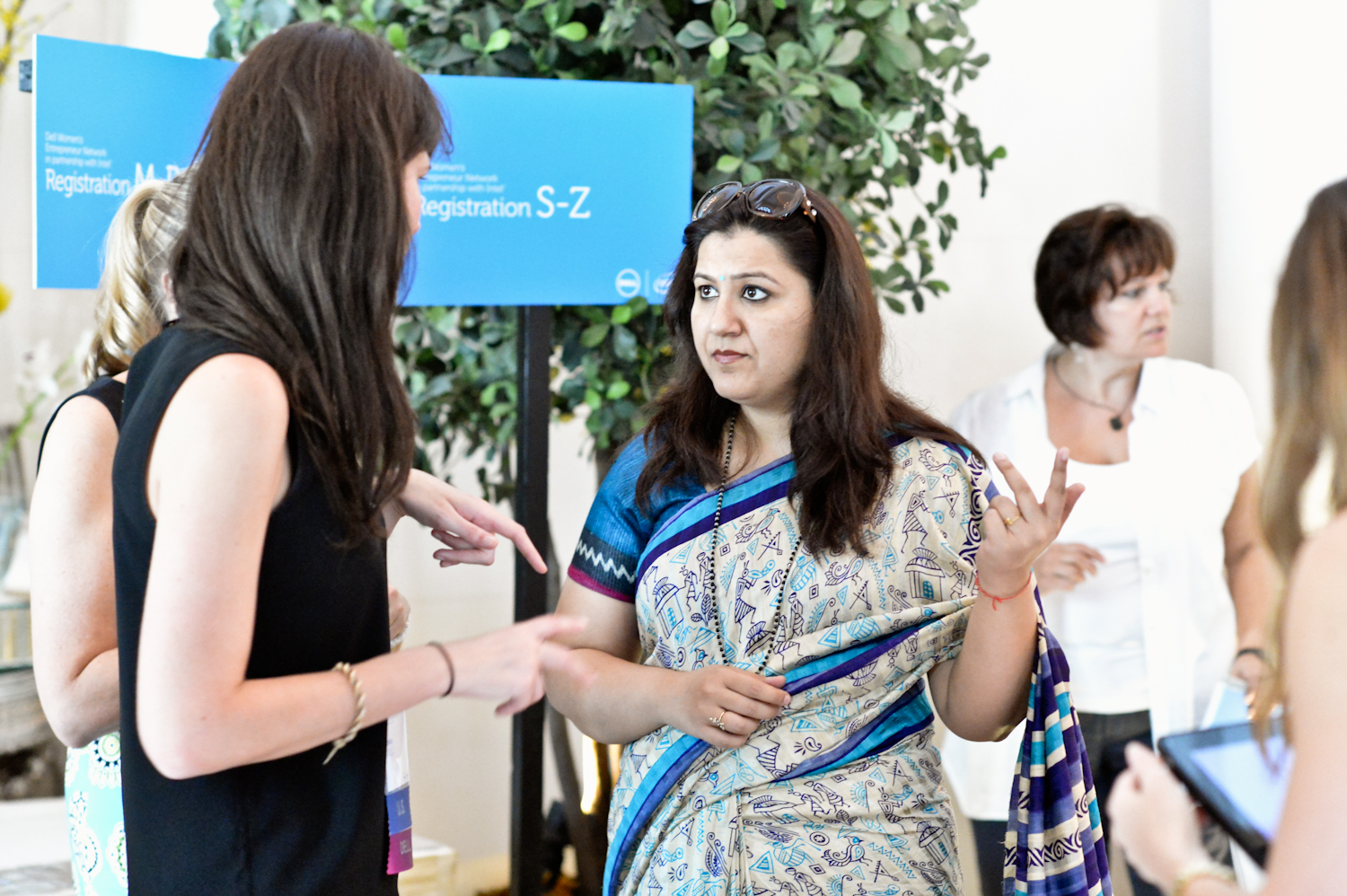 DWEN Conference 2012 - New Delhi Dell Women's Entrepreneur Network